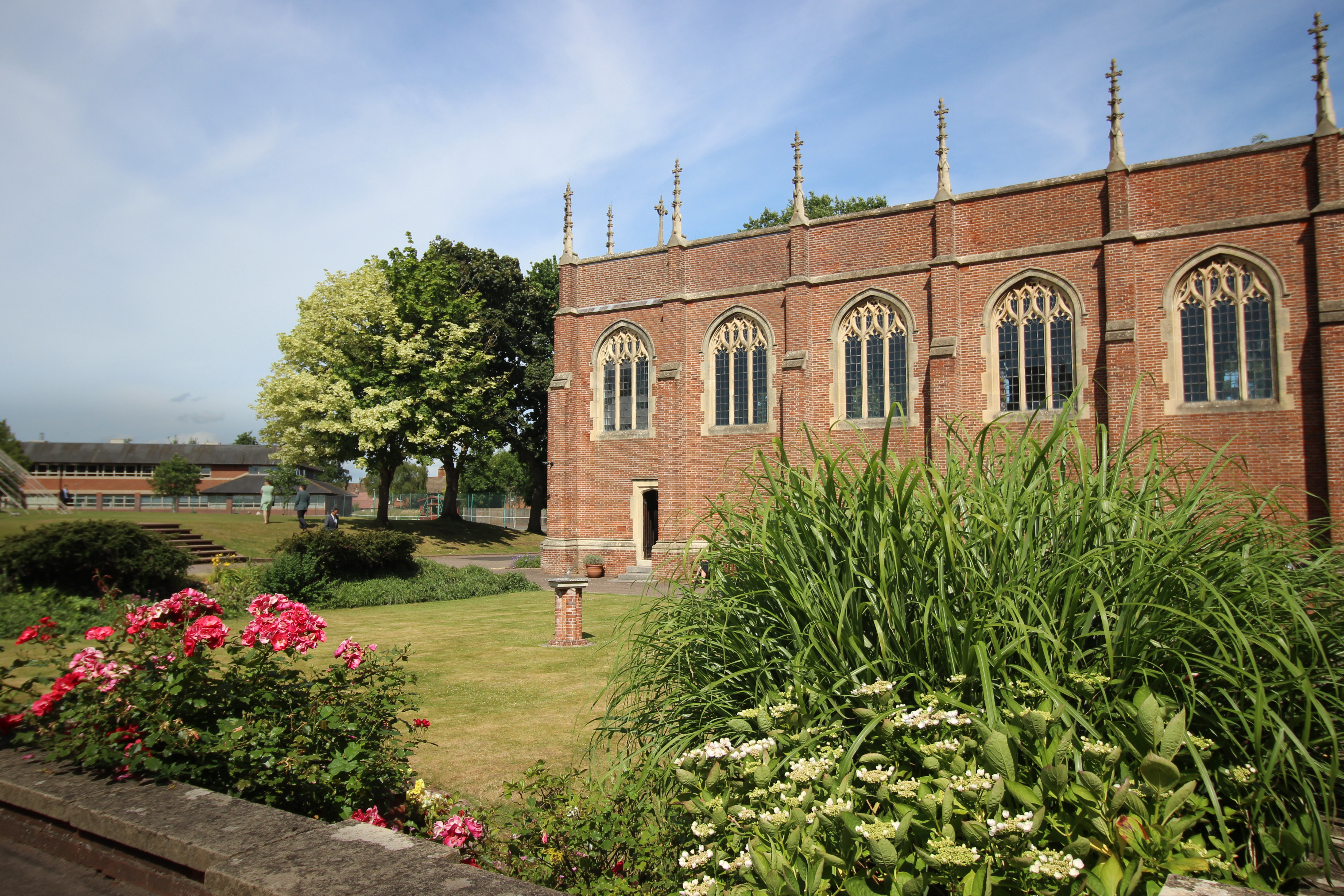 Chapel of Wellington School, Somerset